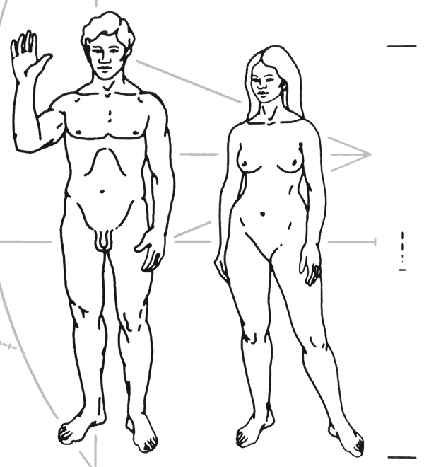 The Pioneer plaque.